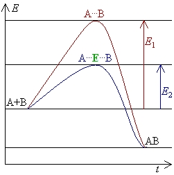 subida desde wiki inglesa es::en:Image:Activation.png Copio información de origen: "(Drawn January 31 2005 by G. Andruk, released under GNU Free Documentation License) Diagram of a catalytic reaction, showing the energy needed at each stage of the reaction. The substrates (A and B) normally need a large amount of energy to reach the transition state, which then reacts to form the end product (AB). The enzyme creates a microenvironment in which A and B can reach the transition state more easily, reducing the amount of energy needed. Since the lower energy state is easier to reach and therefore occurs more frequently, as a result the reaction is more likely to take place, thus improving the reaction speed. Licencia